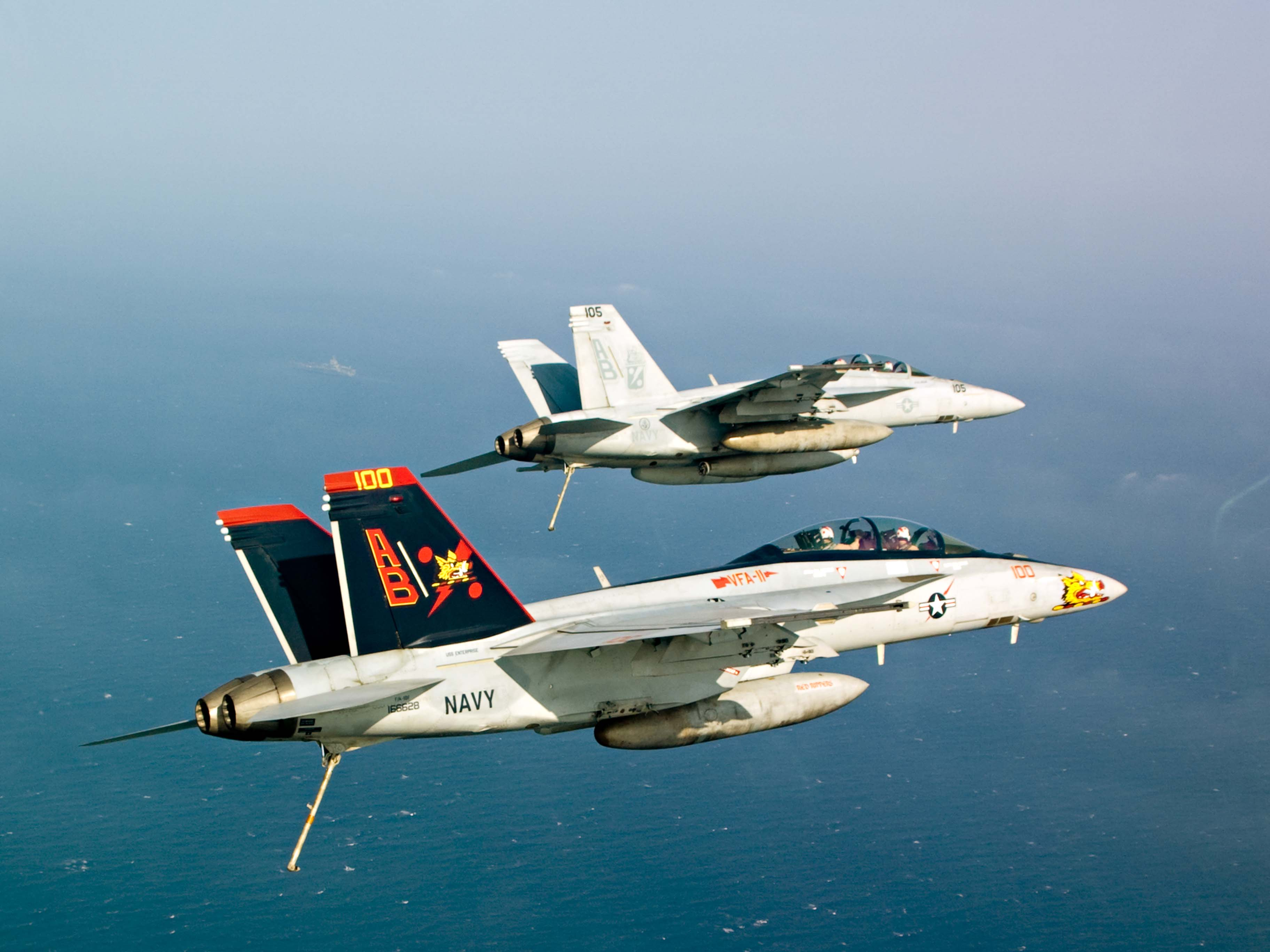 Two U.S. Navy Boeing F/A-18F Super Hornets (BuNo 166628, 166610) assigned to Strike Fighter Squadron (VFA) 11 "Red Rippers" in flight over the Red Sea. VFA-11 was assigned to Carrier Air Wing 1 (CVW-1) aboard the aircraft carrier USS Enterprise (CVN-65) for a deployment to the Mediterranean Sea and the Indian Ocean from 11 March to 4 November 2012.